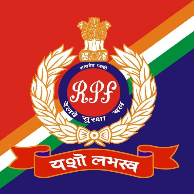 logo of RPF